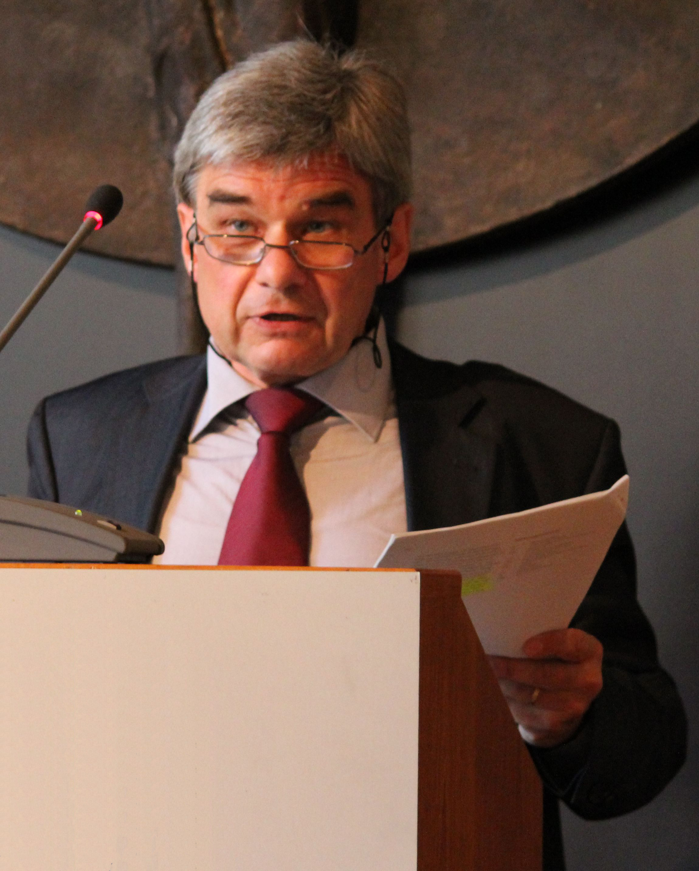 Prof. Matthias Küntzel